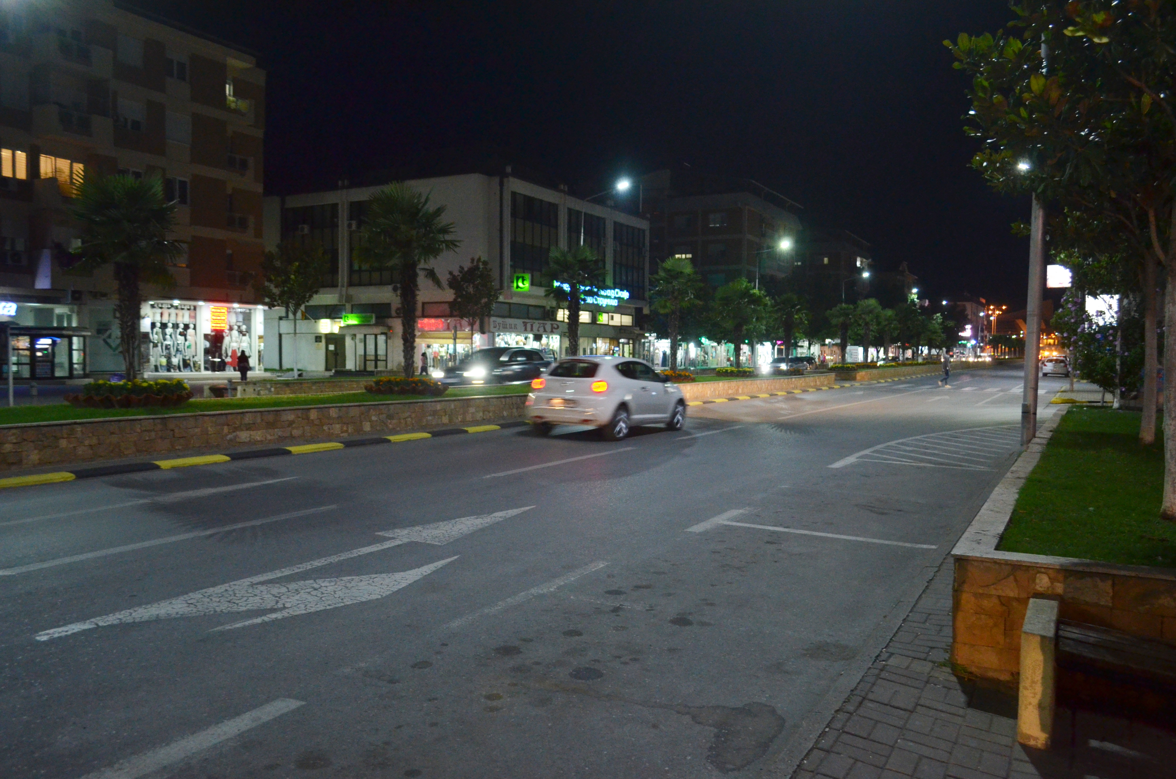 Boulevard Marshal Tito in Strumica at night